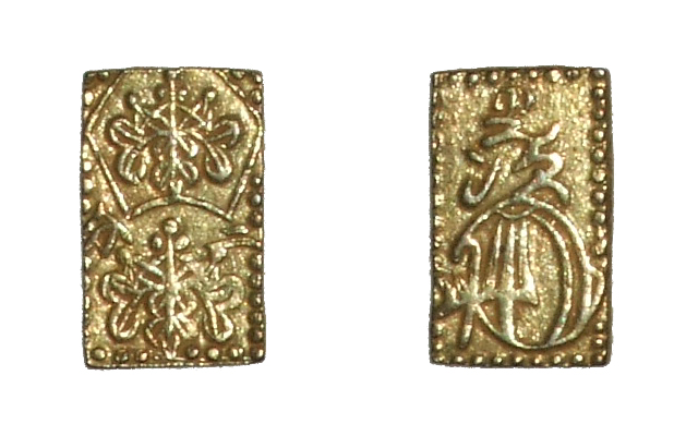 Tomebun-2buban